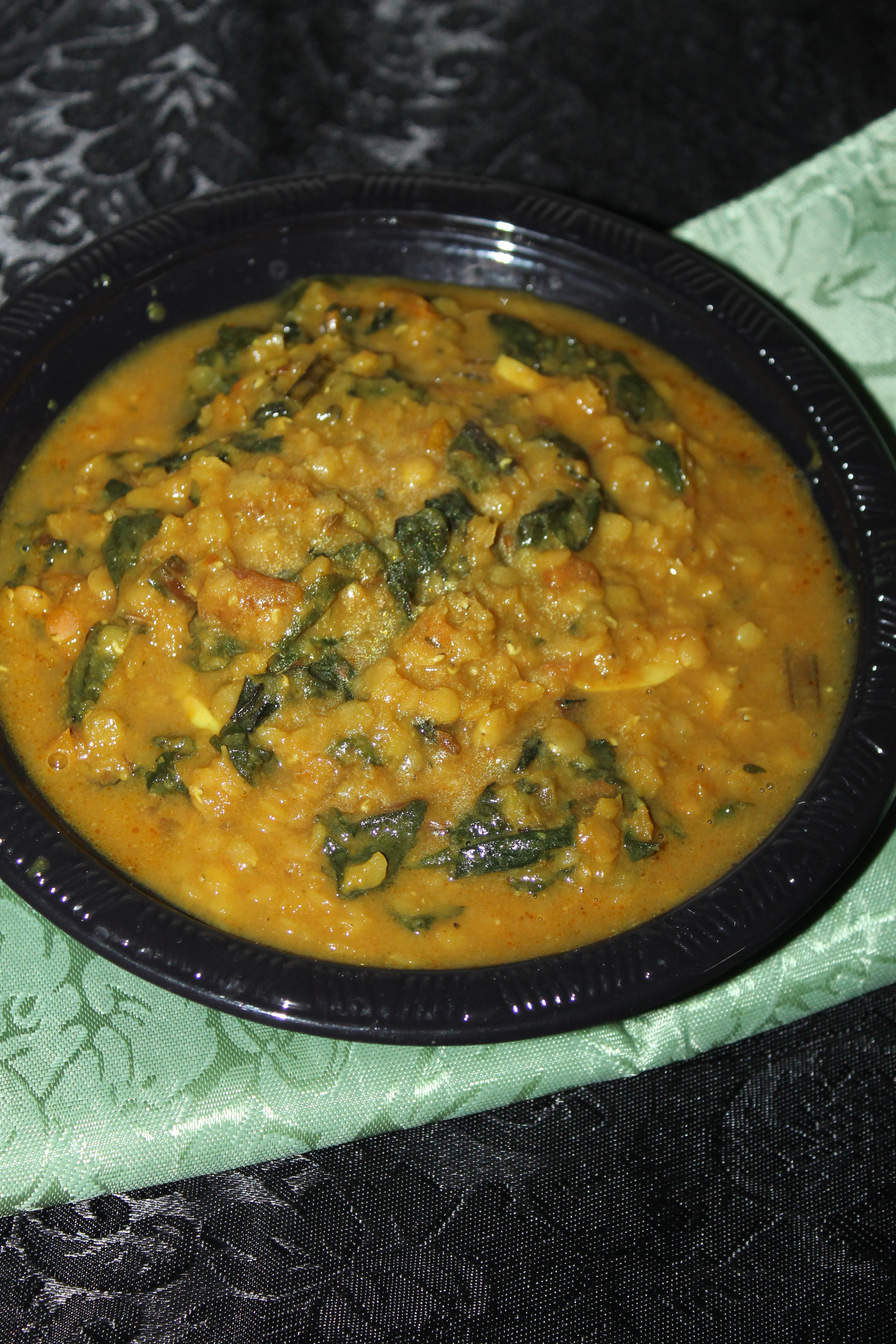 dal made using beetroot leaves